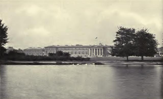 Royal Military College, Sandhurst, 1900